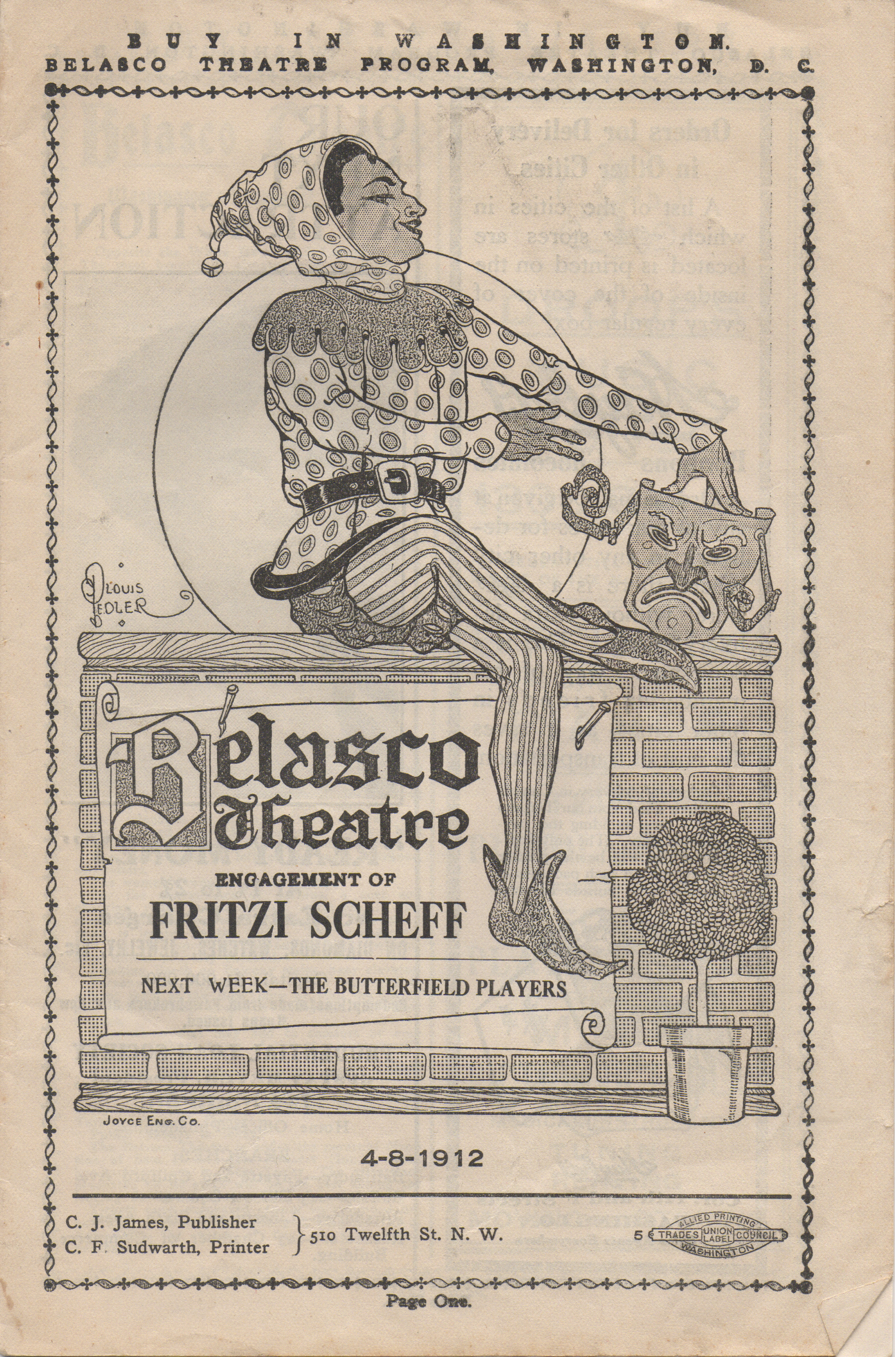 Program for the week of April 8, 1912 (Vol. 7, No. 29) for the Belasco Theater, Washington, D.C. featuring Fritzi Scheff staring in the Johann Strauss opera "Die Fledermaus" (in English)